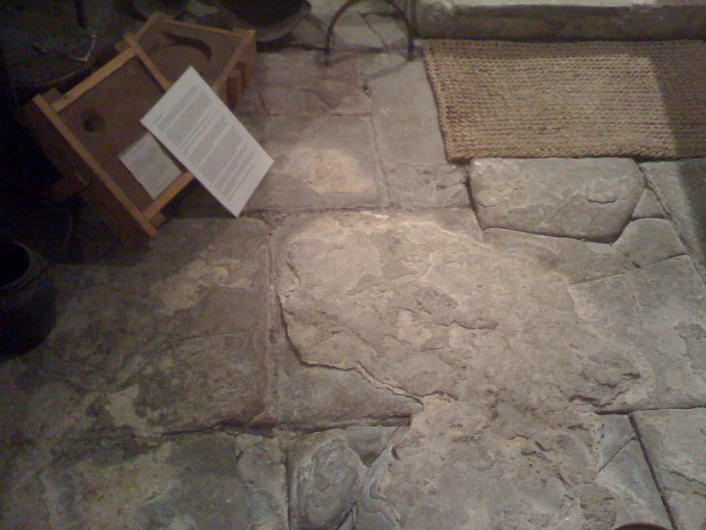 There was a spill of metal from the furnace when Herschel was trying to make a particularly large speculum metal mirror.